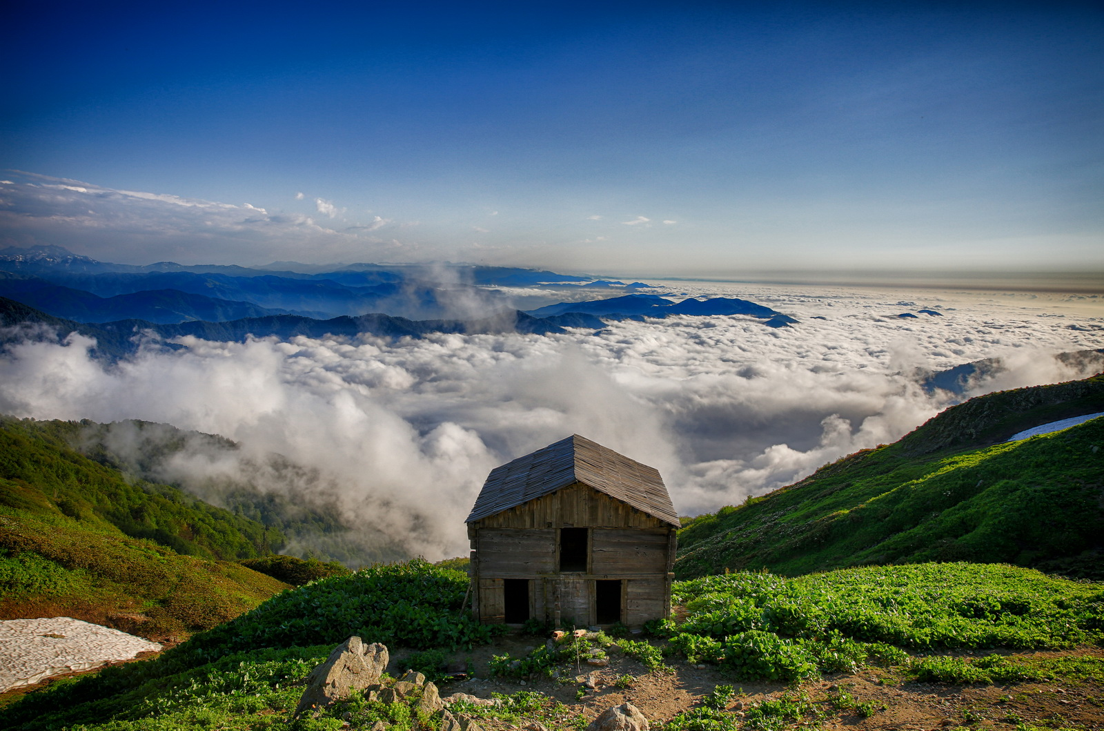 Kintrishi Protected Area is located in the Autonomous Republic of Adjara, Kobuleti region and its total area is 13.893 ha.